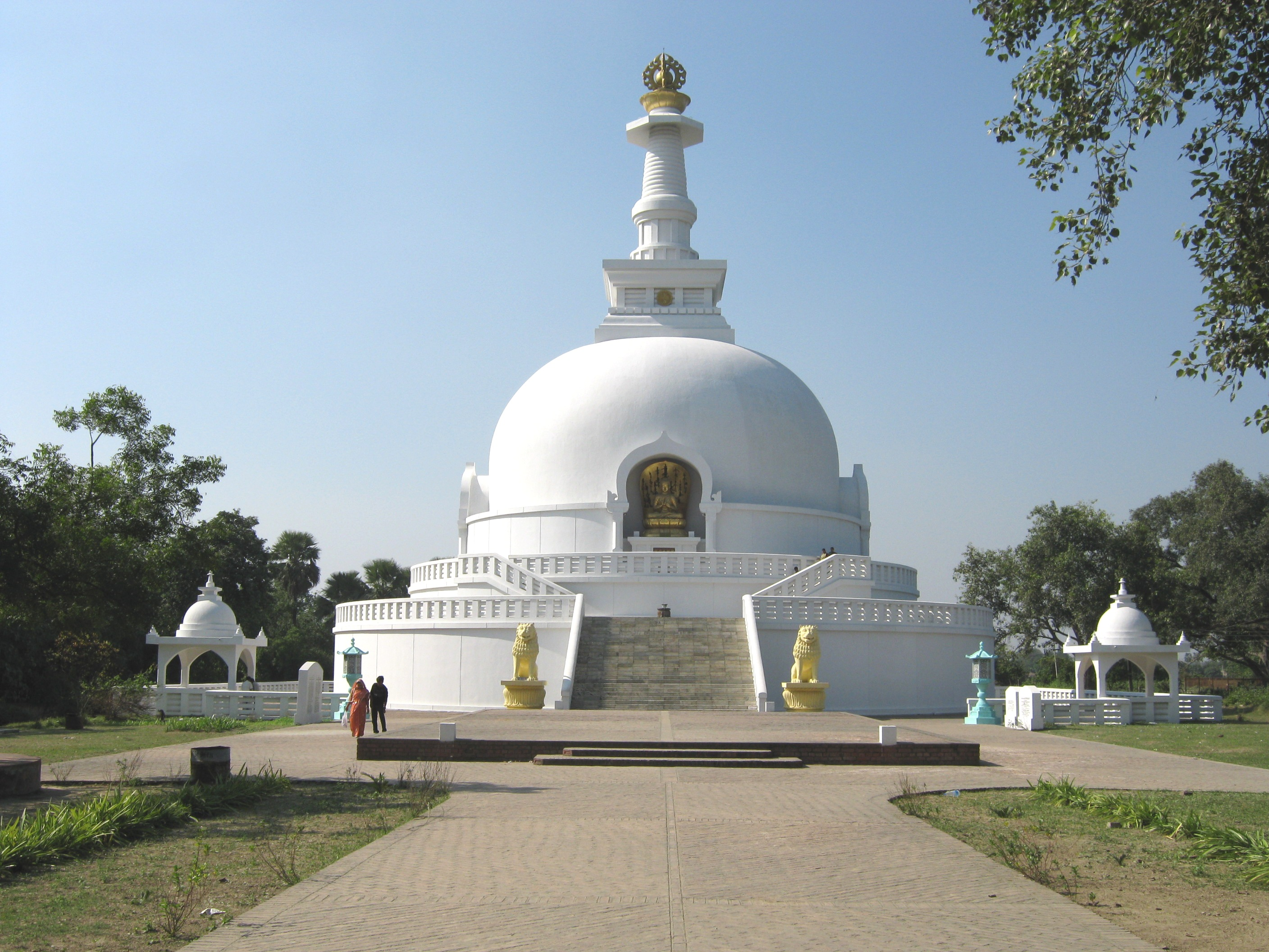 Budha Stupa of Vaishali